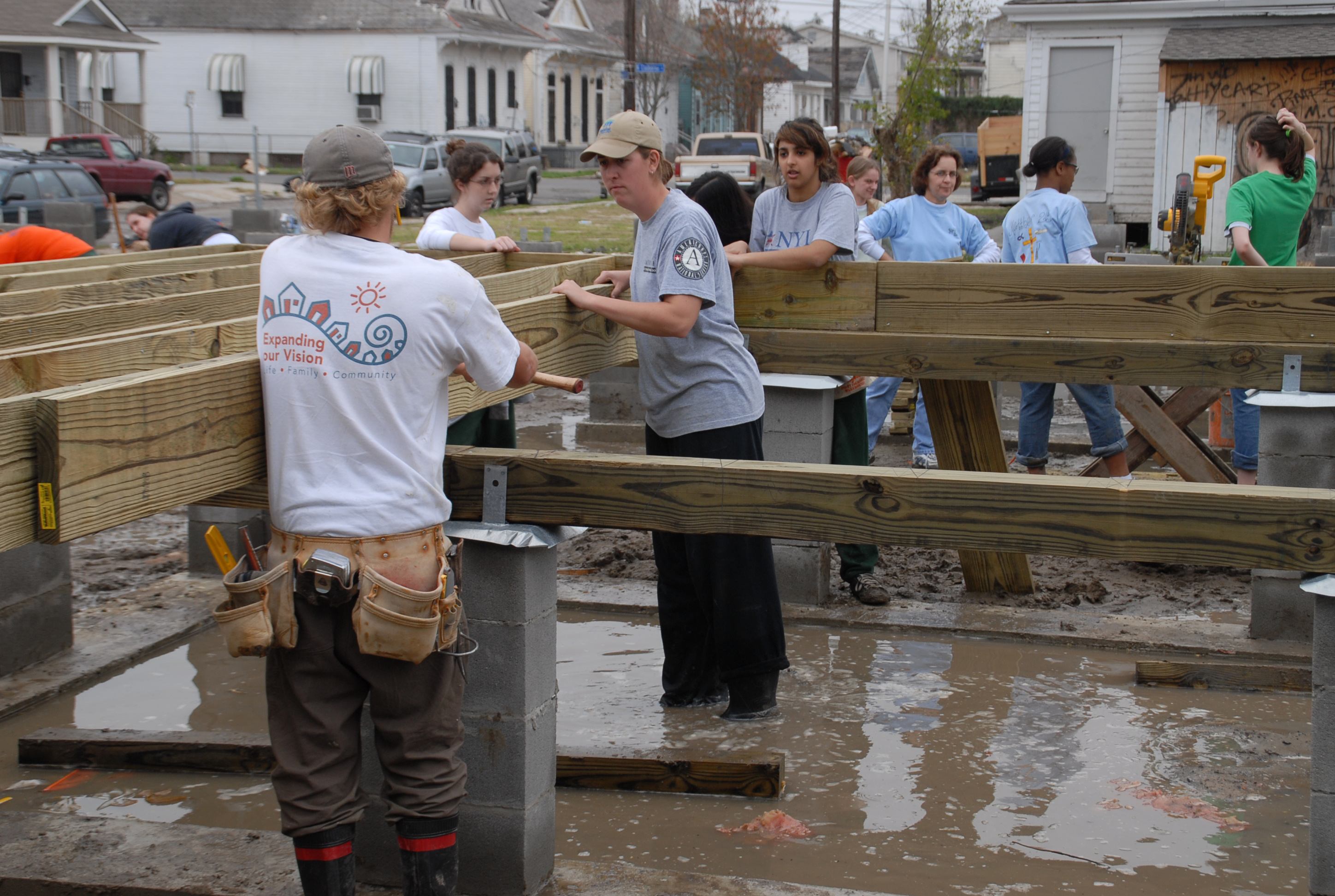 New Orleans, LA 1-21-06 -- Volunteers from AmeriCorps place a floor joist on a Habitat for Humanity home being built in New Orleans. The organizations have teamed up to provide housing for Hurricane Katrina Victims. Volunteer Agencies are an important FEMA partner that provide needed service to victims. MARVIN NAUMAN/FEMA photo